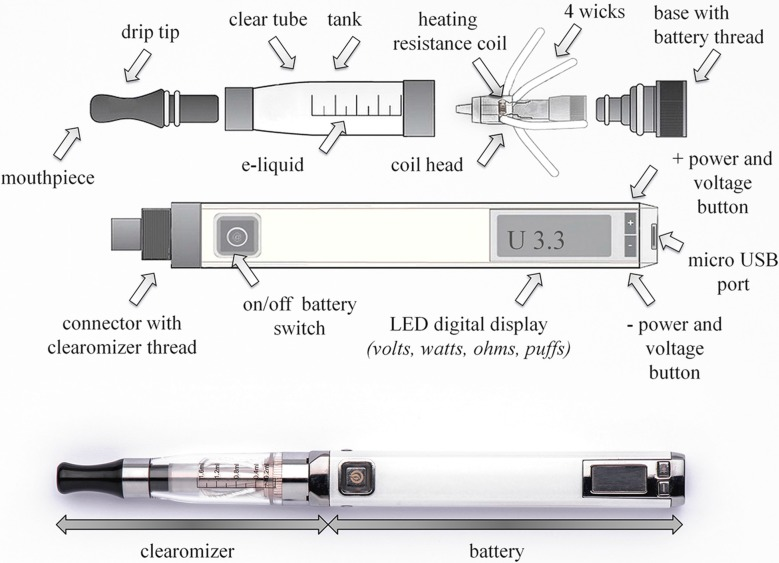 Description from article: Microprocessor-controlled, variable-voltage/wattage, personal electronic-cigarette with LED digital display (volts or watts, puff count, ohmic resistance), equipped with a transparent clearomizer and changeable dual-coil head. Vaping cannabis requires an e-cigarette model of this type, offering a wide range of settings (power, voltage adjustments) and the option of using different resistance coils. The presence, number, and positioning of wicks are also important.